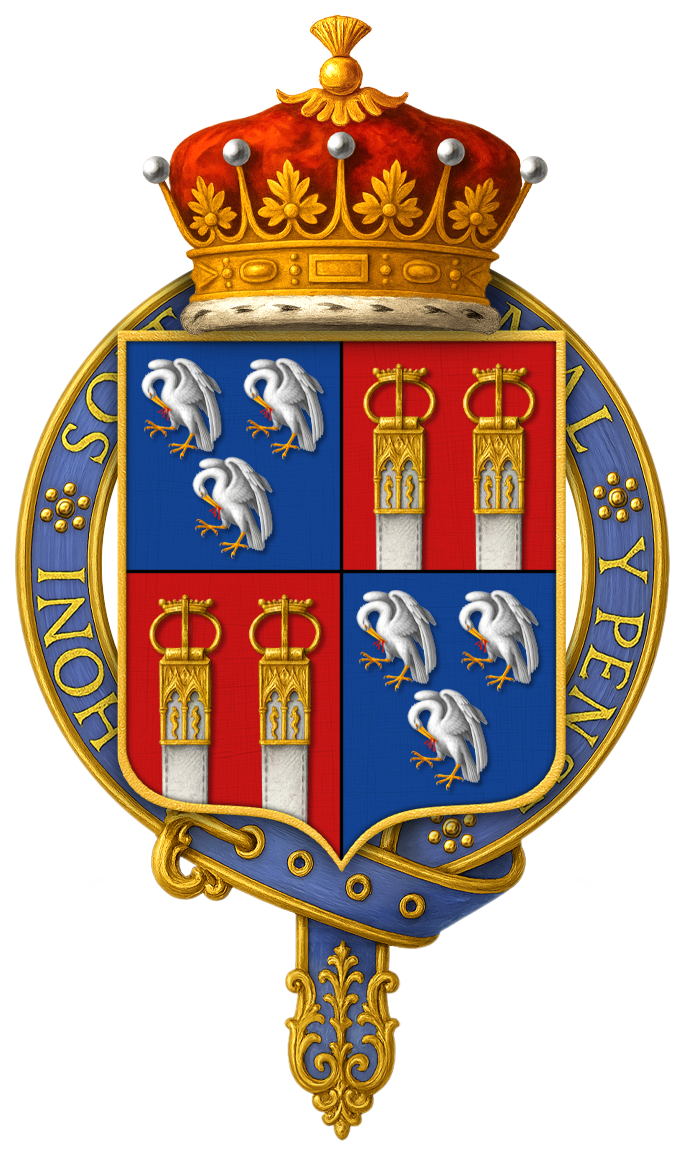 Garter-encircled shield of arms of Charles Pelham, 4th Earl of Yarborough, KG, as displayed on his Order of the Garter stall plate in St. George's Chapel.